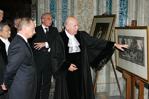 THE HAGUE. Visiting the UN International Court of Justice.